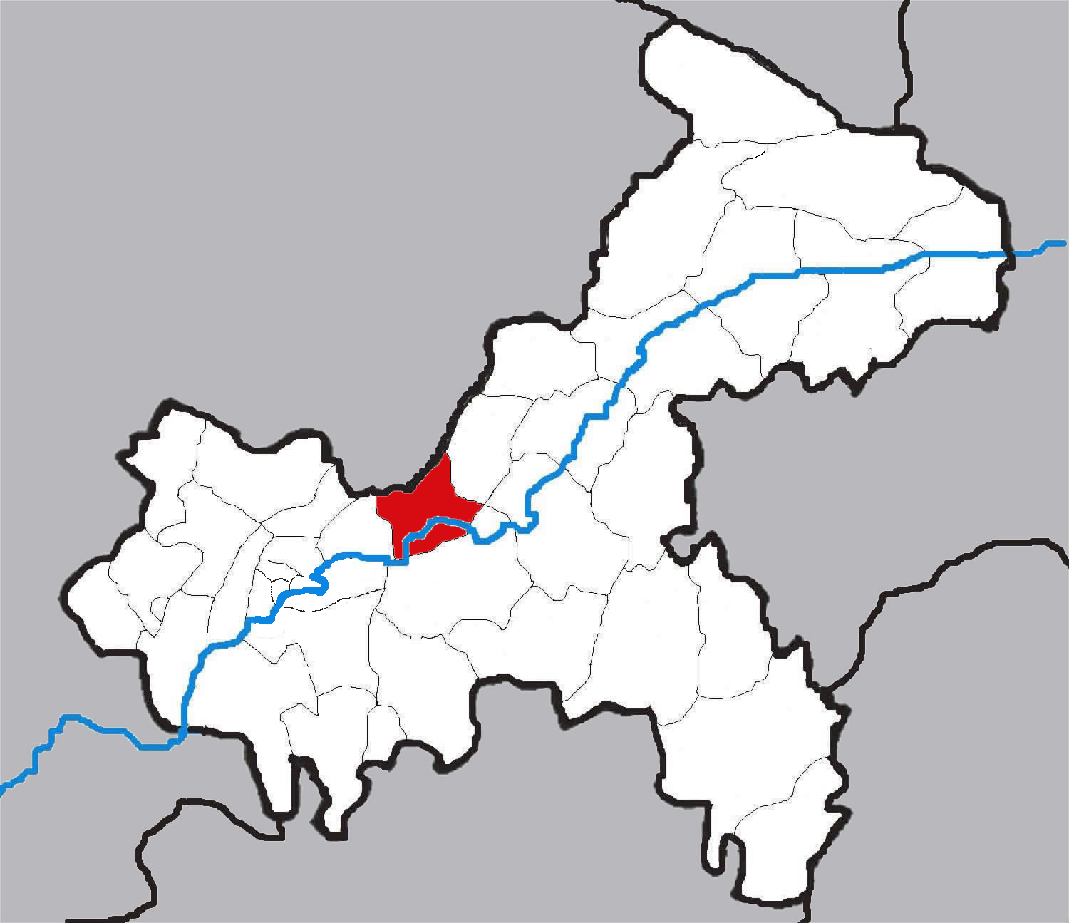 Administration maps of Chongqing, China